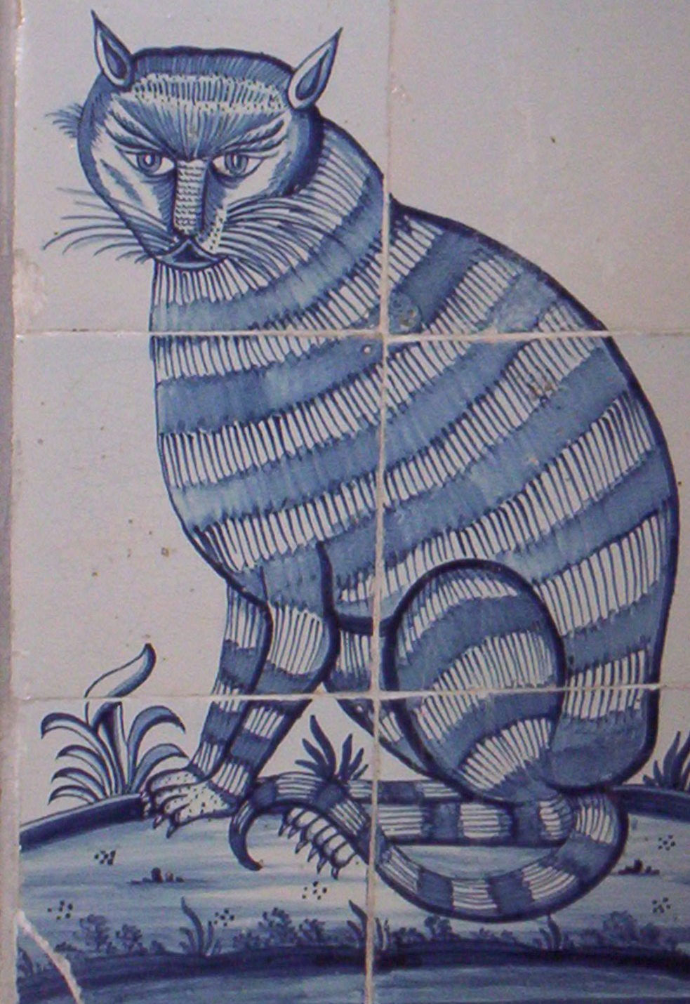 Delftware: cat in blue and white in the Provinciehuis at Haarlem